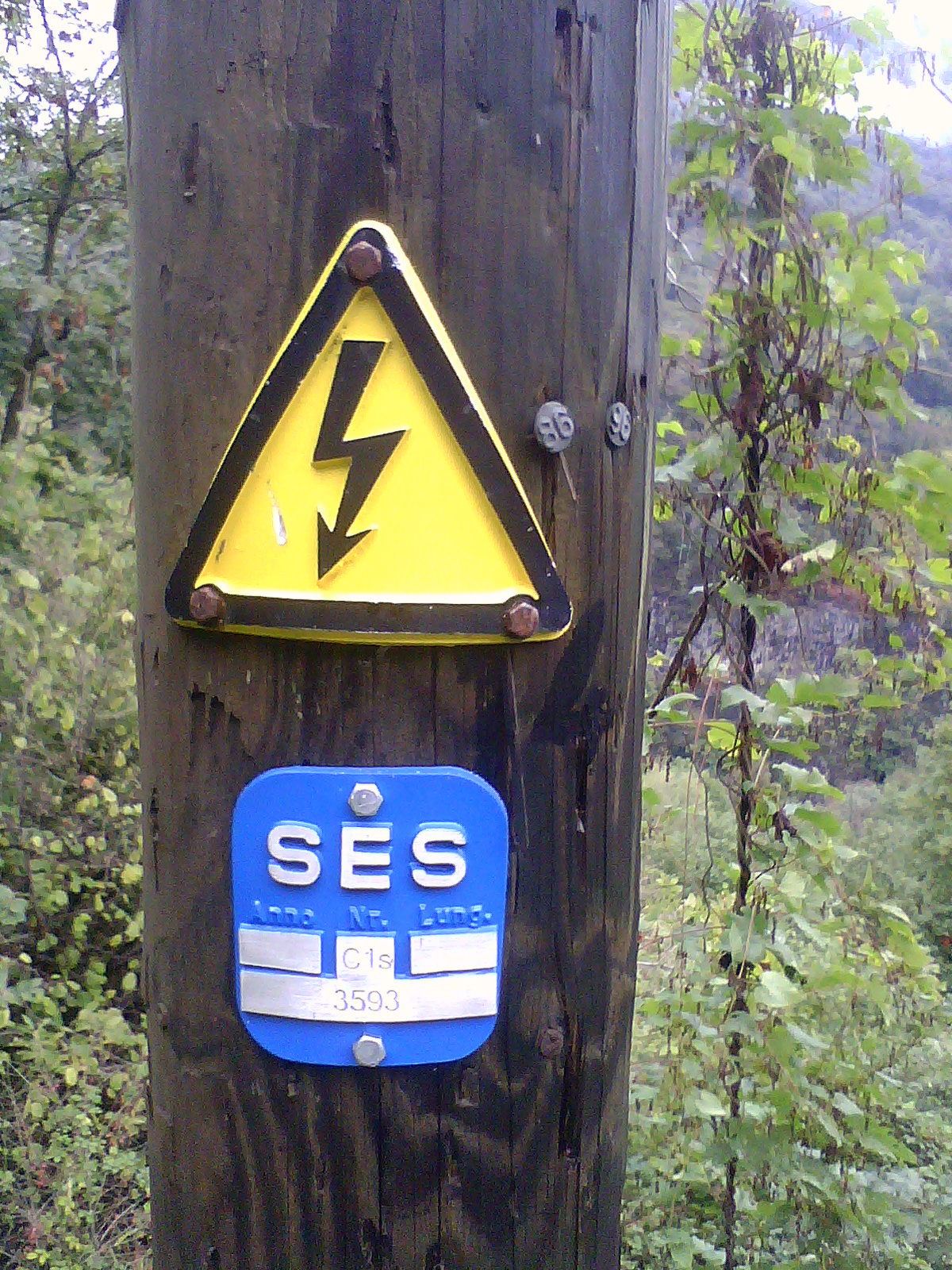 wooden utility pole in Intragna, Switzerland